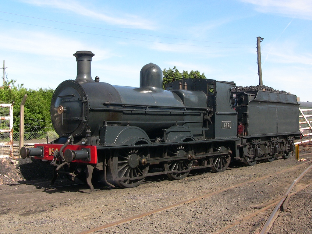 Steam locomotive No.186 in steam at Whitehead, County Antrim, in 2010. 186 was built in 1879 for the Great Southern and Western Railway and is now owned and operated by the Railway Preservation Society of Ireland.